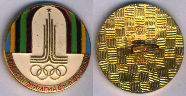 USSR badge, depicting the emblem of the 1980 Summer Olympics. On the front side the words in Russian ИГРЫ XXII ОЛИМПИАДЫ МОСКВА-80 (Games of the XXII Olympiad Moscow-80) are engraved. The reverse side depicts the face value 35 copeck of the badge and the trademark of the Lenteplopribor Science Production Association (NPO)(which was located in Leningrad). 1145437 - OLYMPIAD 80 Comité International Olympique Château de Vidy CH-1007 Lausanne(CH) Authors: artists V. Ermakov, Yu. Lukyanov, A. Kozlov. sculptors: brothers L. Kamshilovs, I. Kamshilov, S. Ivanov, N. Nosov, P. Potapov, R. Minigaliev and N. Filippov. "Goznak", GOZNAK, ul. Mytnaya, Moscow, the USSR, Leningrad Mint, Leningrad Mint, Leningrad, the USSR, Ministry of Finance and State Bank of the USSR Olympic Committee of the USSR, Luzhnetskaya nab., Moscow, USSR, OLYMPIAD 80 International Olympic Committee, Château de Vidy CH-1007, Lausanne, Lausanne, Switzerland, (CH), 1976 Авторы: художники В.А. Ермаков, Ю. Лукьянов,А.Козлов. скульпторы братья Камшиловы, С. Иванов, Н. Носов, П. Потапов, Р. Минигалиев и Н. Филиппов, "Гознак", GOZNAK, ул. Мытная, Москва, СССР, Ленинградский монетный двор, Leningrad Mint, Ленинград, СССР, Олимпийский комитет СССР, Лужнецкая наб., Москва, СССР, Министерство финансов и Государственный банк СССР, OLYMPIAD 80 Международный Олимпийский комитет, Château de Vidy CH-1007, Лозанна, Lausanne, Швейцария, (CH), 1976 год